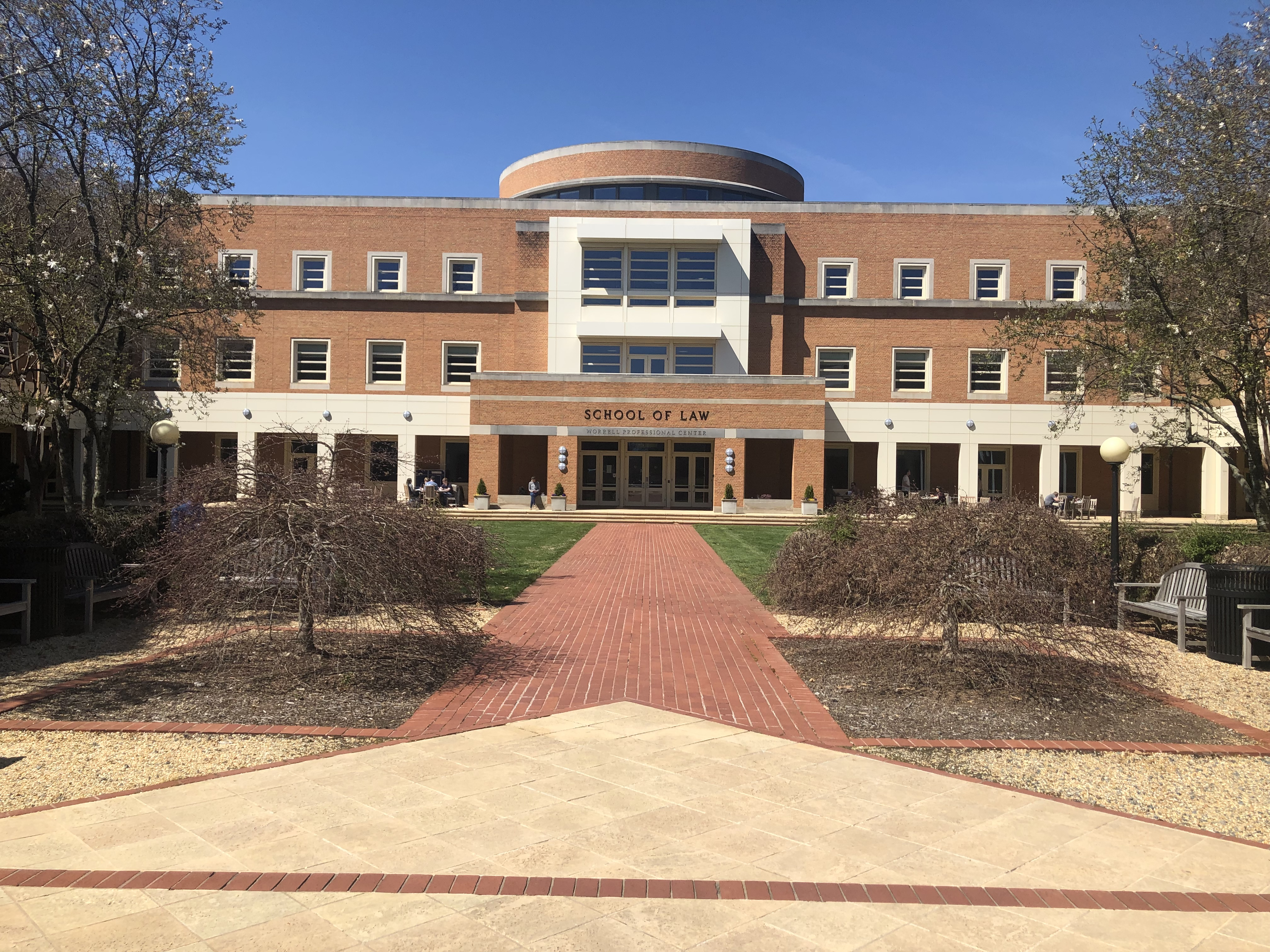 Photo of Worrell Professional Center on the campus of Wake Forest University